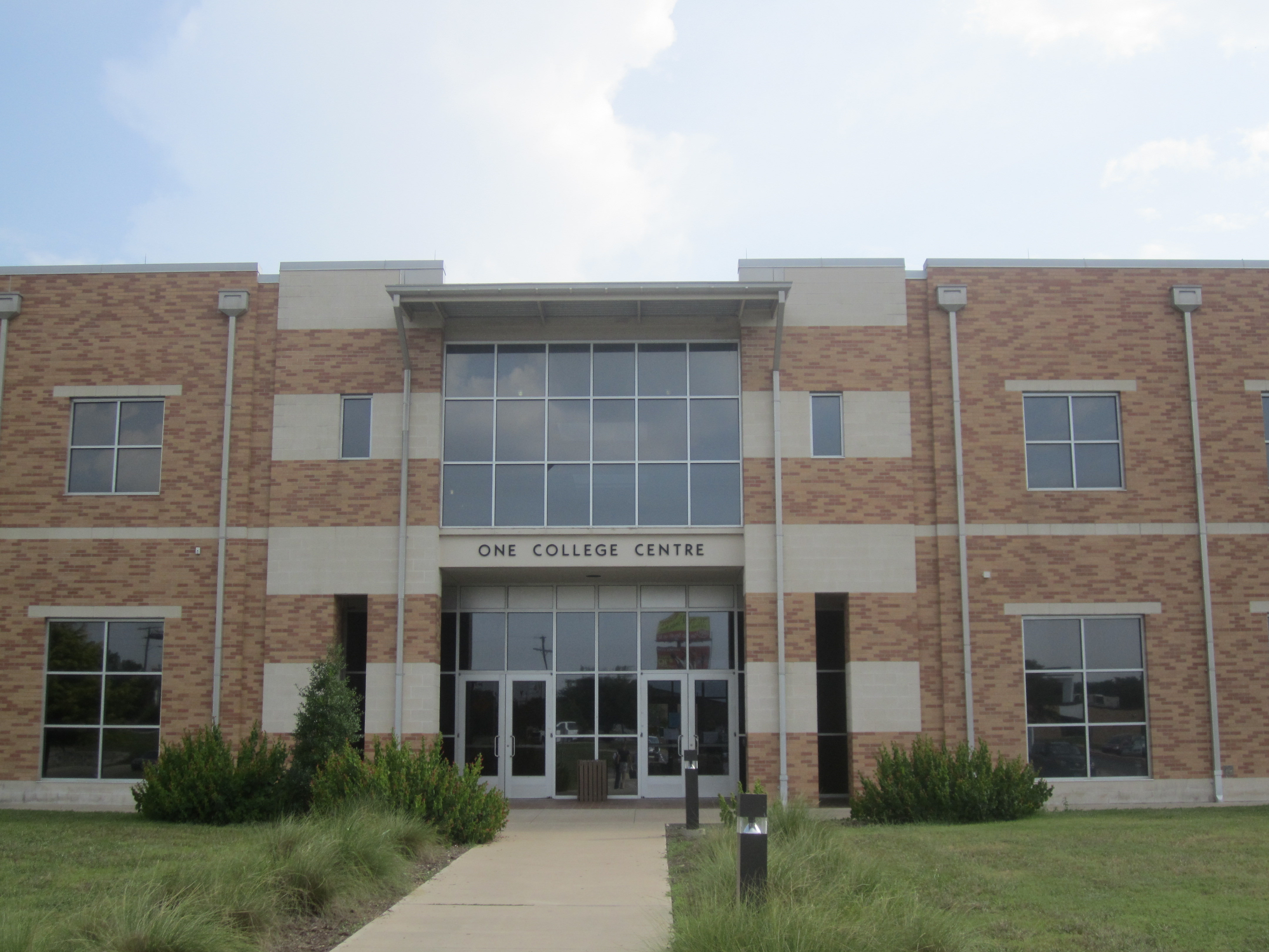 I took photo with Canon camera in Temple, TX.